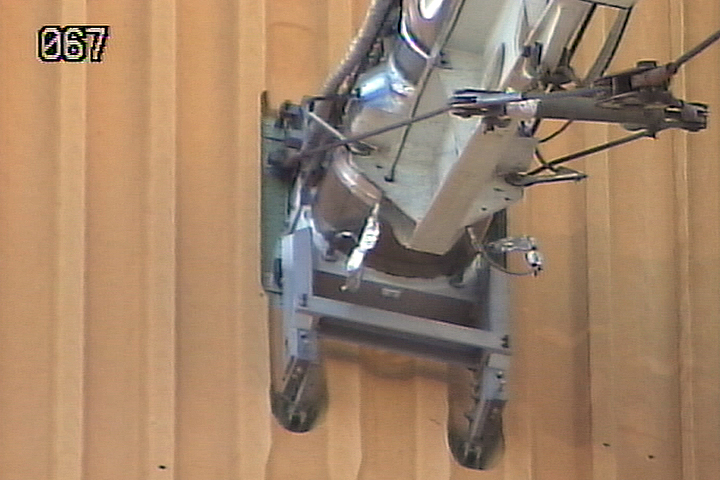 Launch Scrubbed Due to Hydrogen Leak at Ground Umbilical Carrier Plate Fri, 05 Nov 2010 01:29:30 PM GMT+0100 Space shuttle managers have scrubbed Discovery’s launch attempt for today due to a hydrogen leak at the Ground Umbilical Carrier Plate, or GUCP (pronounced GUP). The next launch attempt would be no earlier than Monday. During the process of filling the external tank, the hydrogen leak was detected at the GUCP, an attachment point between the external tank and a 17-inch pipe that carries gaseous hydrogen safely away from Discovery to the flare stack, where it is burned off.